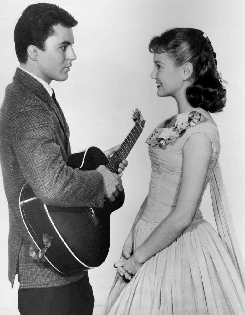 Photo of guest star James Darren as Buzz Berry and Shelley Fabares as Mary Stone from the television program The Donna Reed Show.